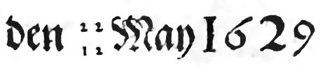 Cropped region showing old style and new style date, contrast enhanced